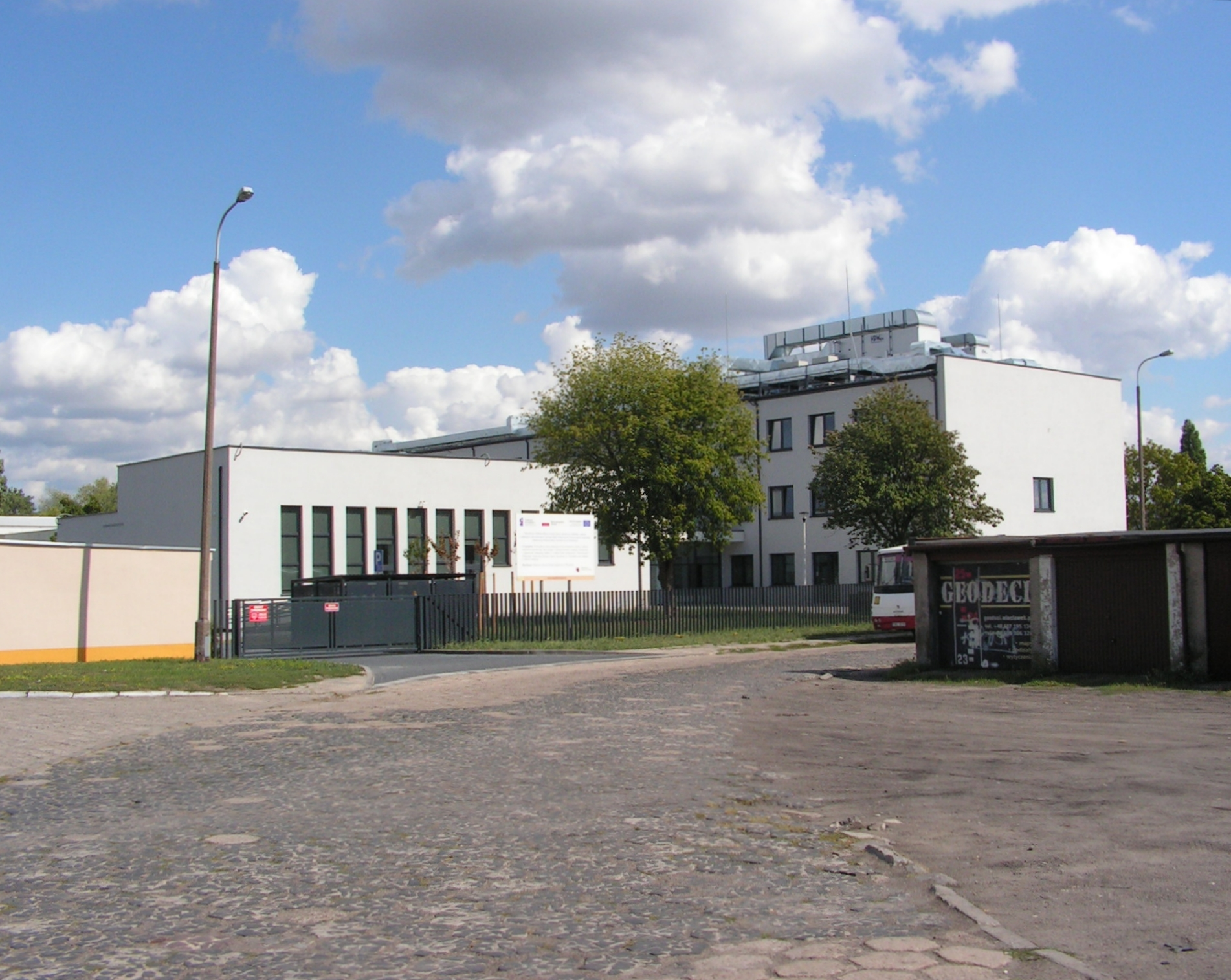 Center of Technical Sciences and Modern Technologies in Włocławek.